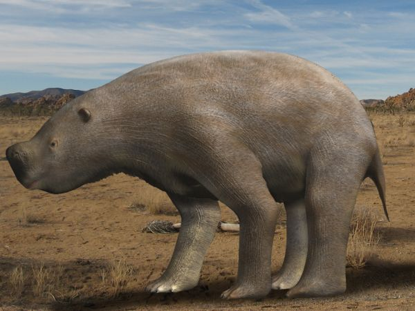 Nothotherium mitchelli, Pleistocene of Australia. Digital.